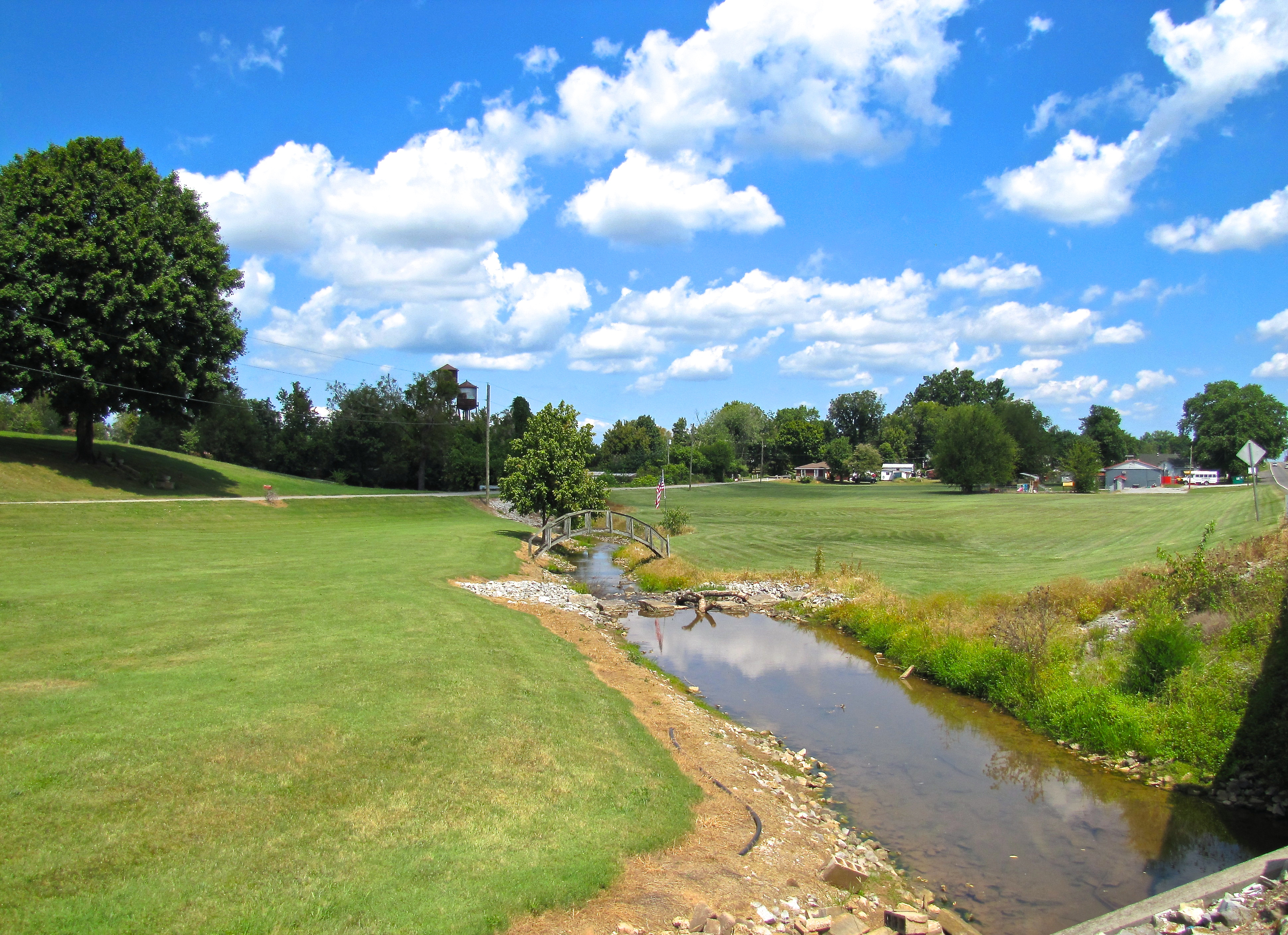 Footbridge over Bacon Creek in Philadelphia, Tennessee, United States.